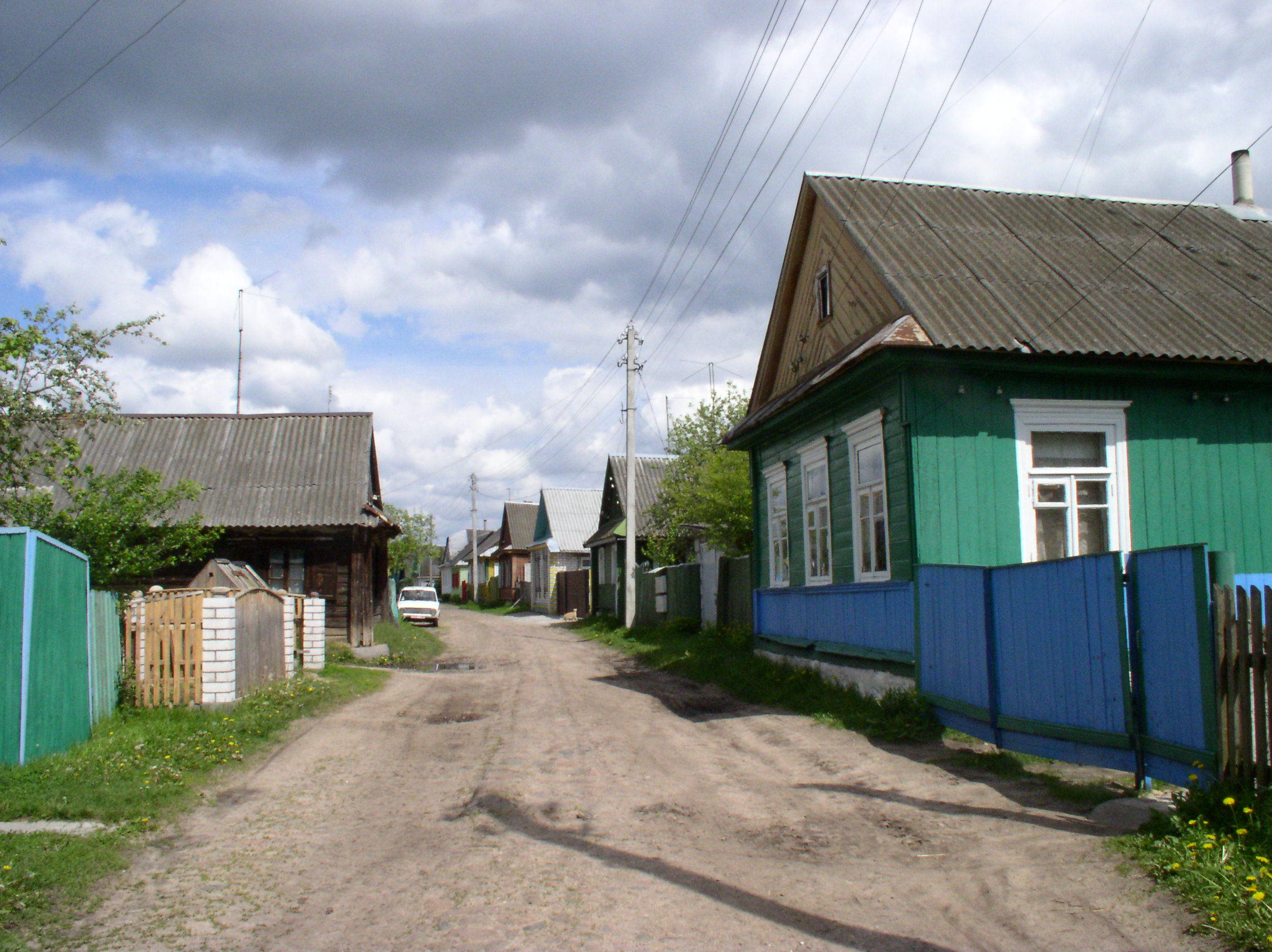 Streets of Rakaw, Belarus.